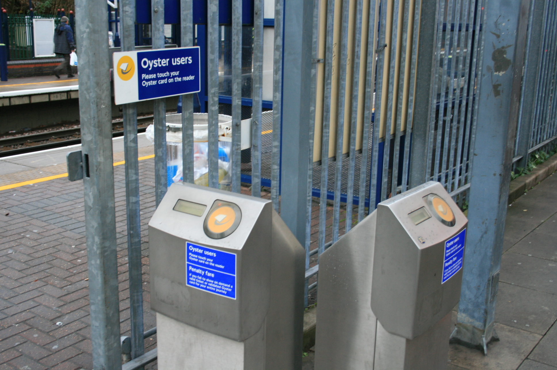 Standalone Oyster card readers at West Brompton Station, London, UK. These are provided at interchange stations - passengers must use these when transferring from National Rail to London Underground or Overground services.